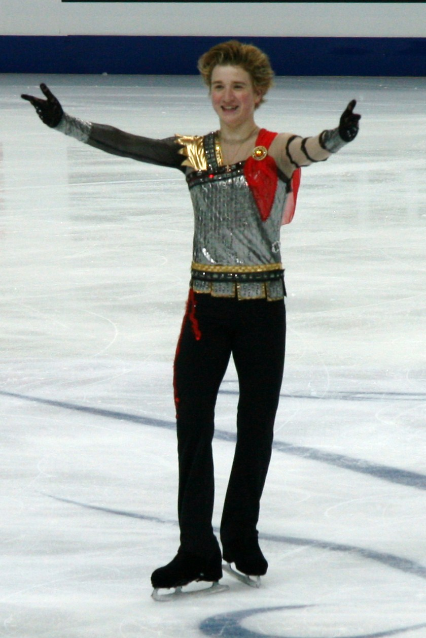 Misha Ge at the 2011 World Figure Skating Championships